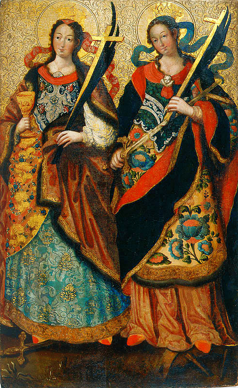 St. Barbara and Catherine (:National Art Museum of Ukraine, Kyivа).